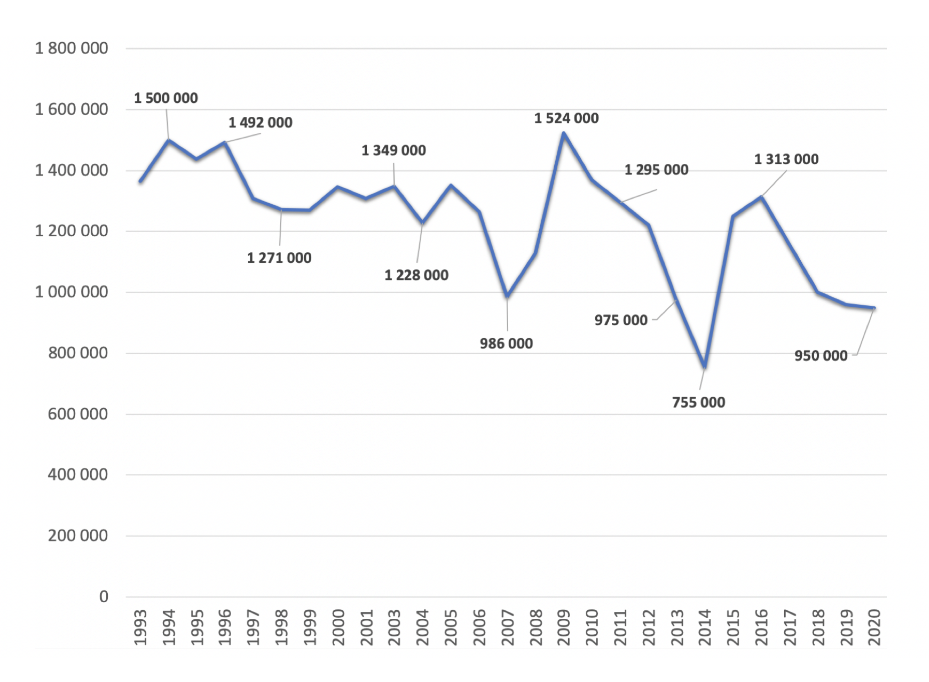 Viewing figures for the finals in the Norwegian Melodi Grand Prix in the years 1993 to 2016. In 1993, modern measurement methods were installed in Norway.